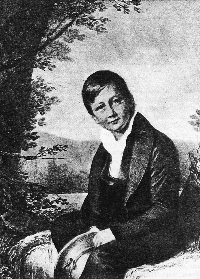 Pierre Edmond Boissier 12 years old